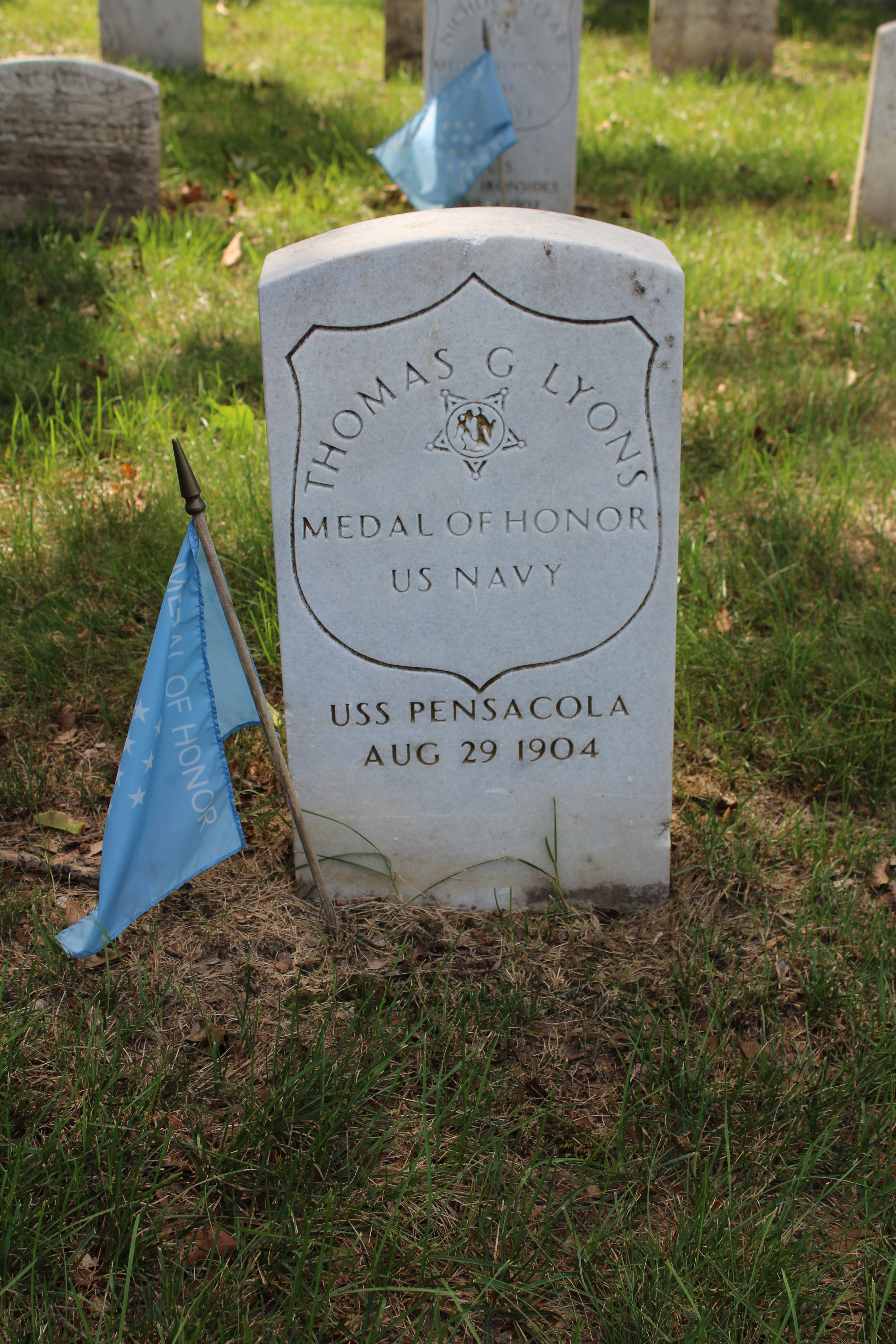 Thomas G. Lyons headstone in Mount Moriah Cemetery Naval Plot in Yeadon, Pennsylvania. Photo taken August 2019.